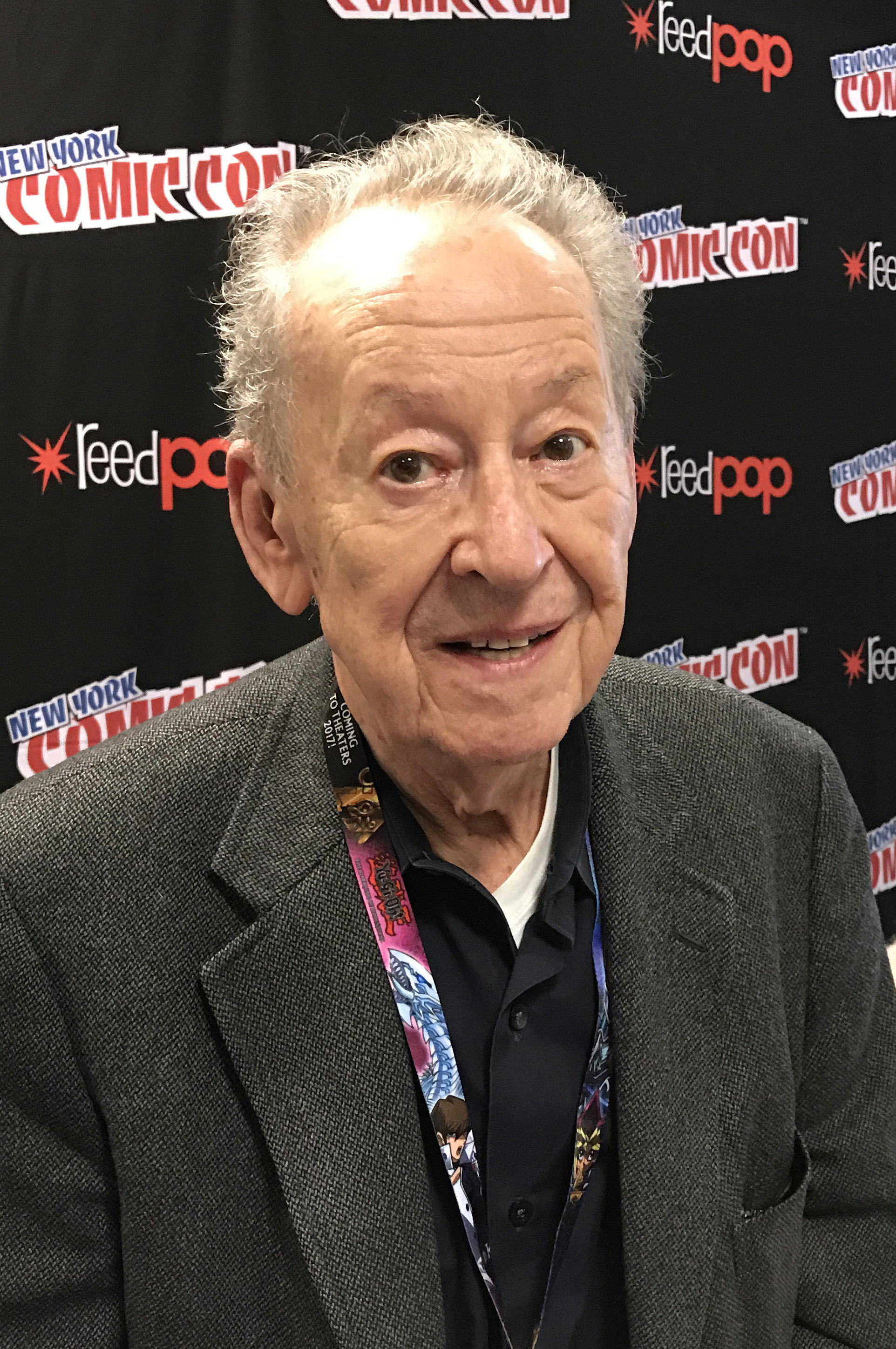 Cartoonist Arnold Roth following a discussion panel dedicated to Trump magazine on Sunday, October 9, 2016 at the Jacob K. Javits Convention Center in Manhattan, Day 4 of the 2016 New York Comic Con. This photo was created by Luigi Novi. It is not in the public domain, and use of this file outside of the licensing terms is a copyright violation.